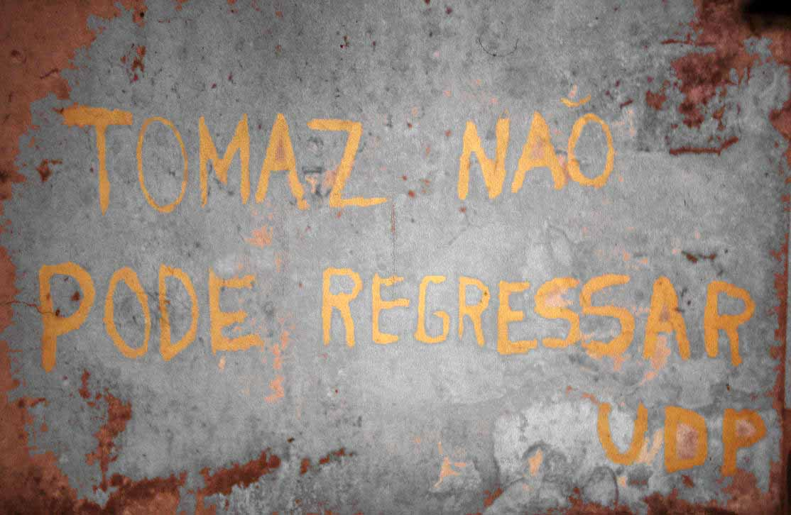 Tomaz can not return UDP